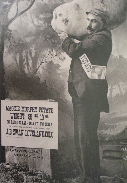 An image displaying Joseph B. Swan holding the Maggie Murphy.